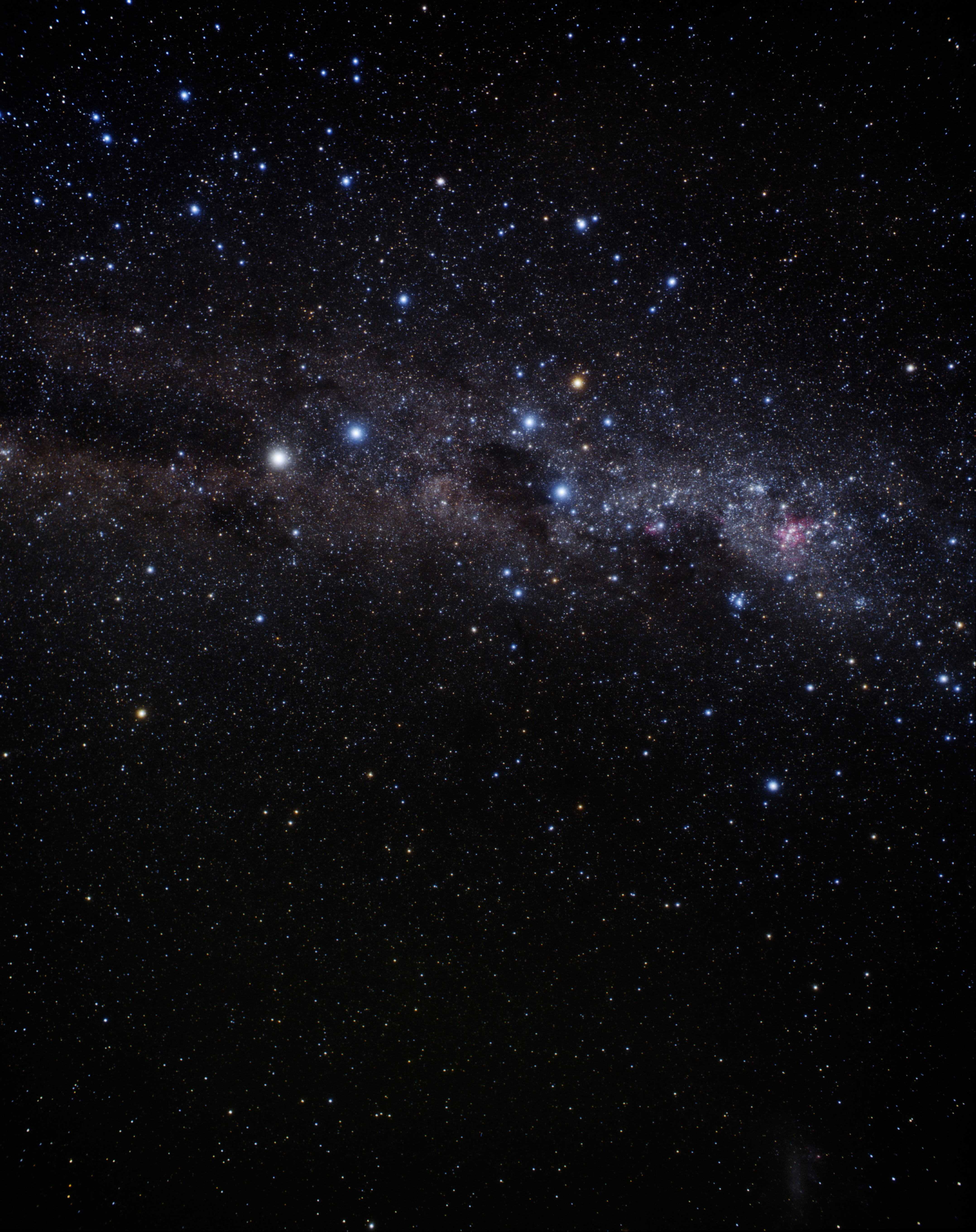 The Jewel Box is shown just right of center, above the dark nebula called the Coal Sack in this picture of the southern sky. The picture was taken with a small ground-based camera.